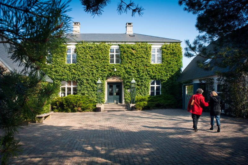 Louisiana Museum of Modern Art